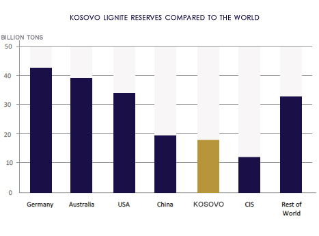 Economic Initiative for Kosovo - ECIKS According to the ECIKS